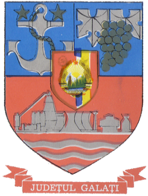 Communist coat of arms of Galați County, Socialist Republic of Romania.